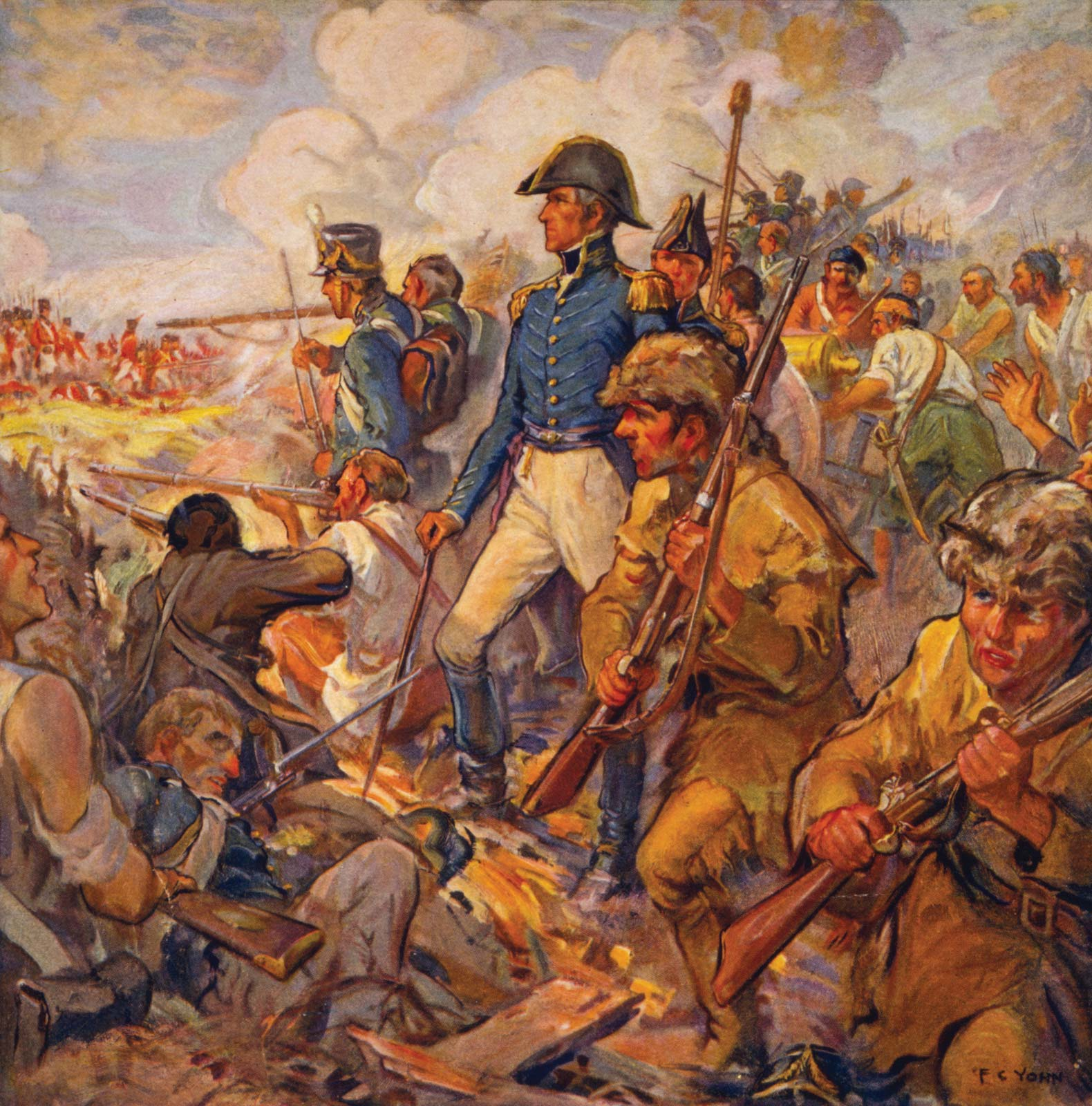 Andrew Jackson commands troops during the Battle of New Orleans on January 8, 1815.